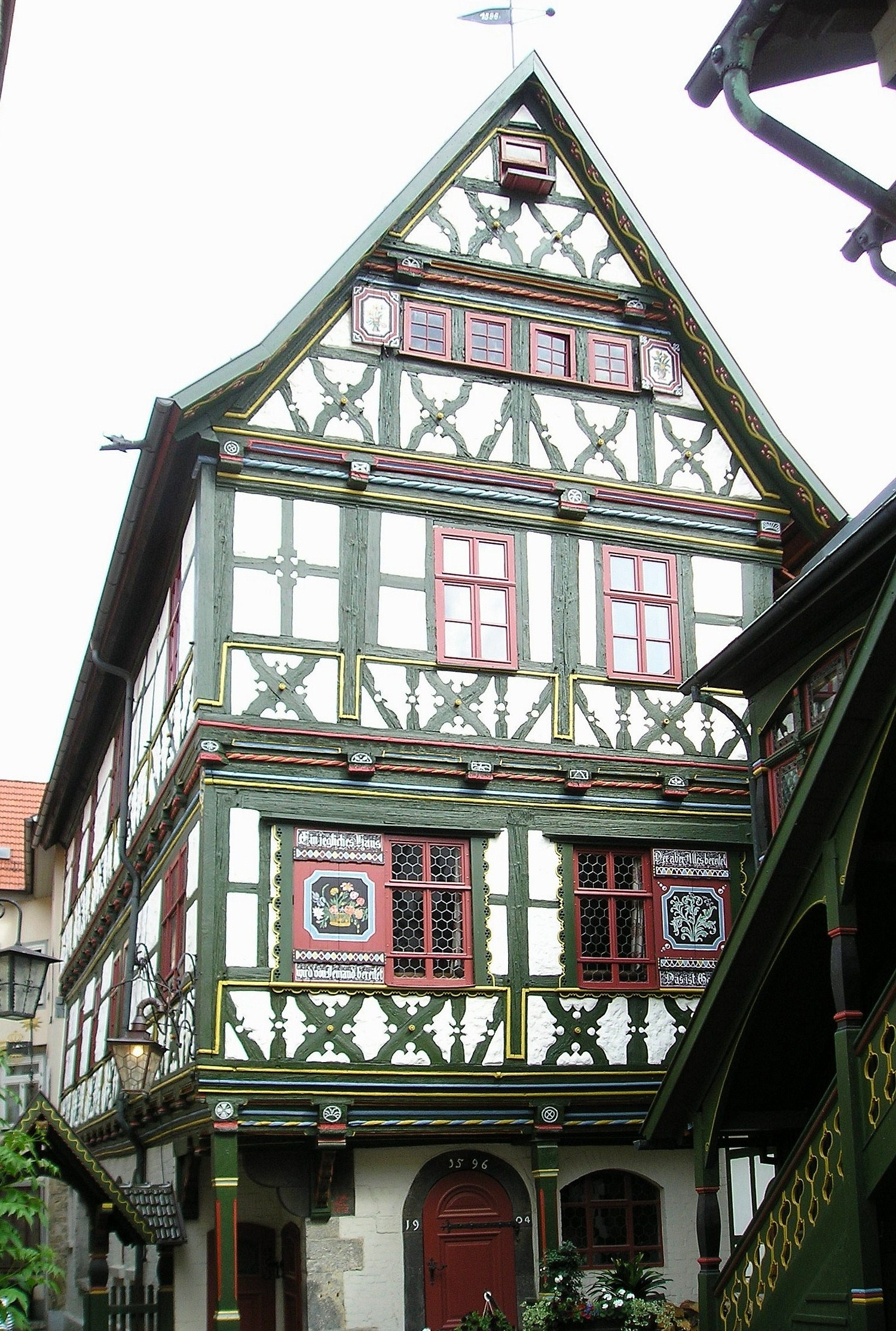 Buechnersches Hinterhaus, half-timbered house from 1596 in Meiningen, Germany